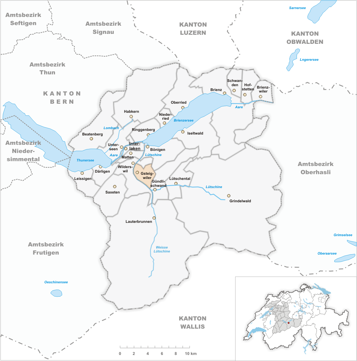 Municipality Gsteigwiler